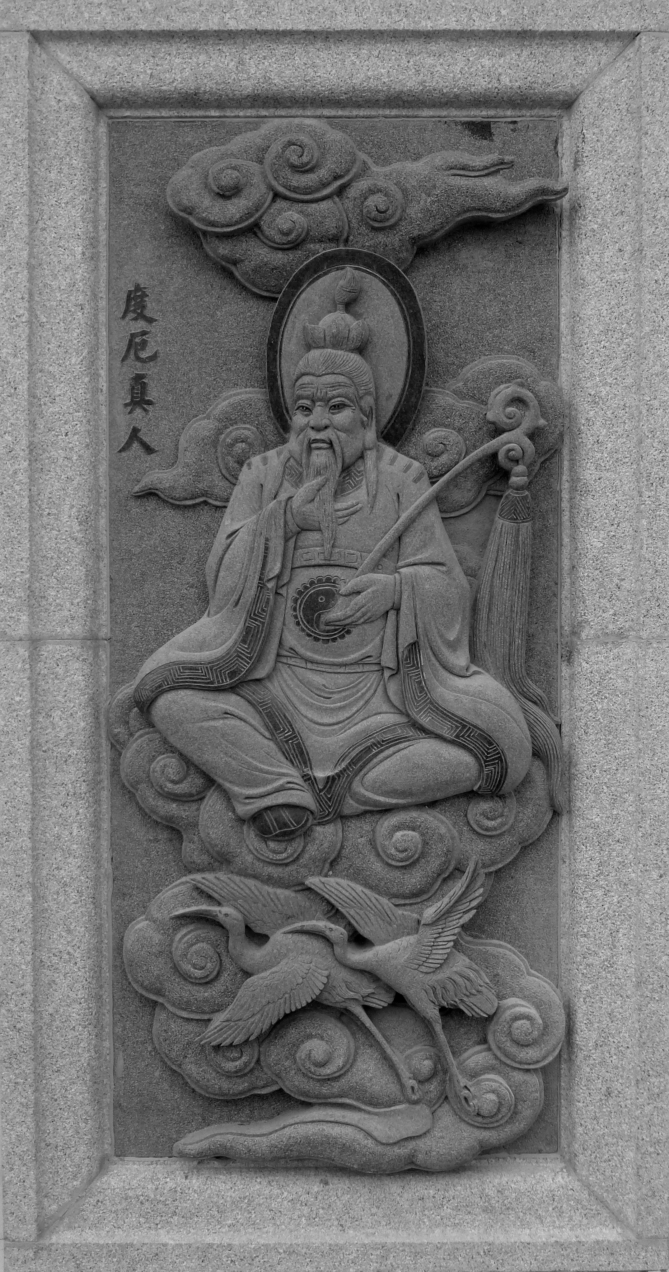 064 Du e Zhenren, Investiture of the Gods at Ping Sien Si, Pasir Panjang, Perak, Malaysia Photograph from the Ping Sien Si Temple in Perak, Malaysia taken by Anandajoti.